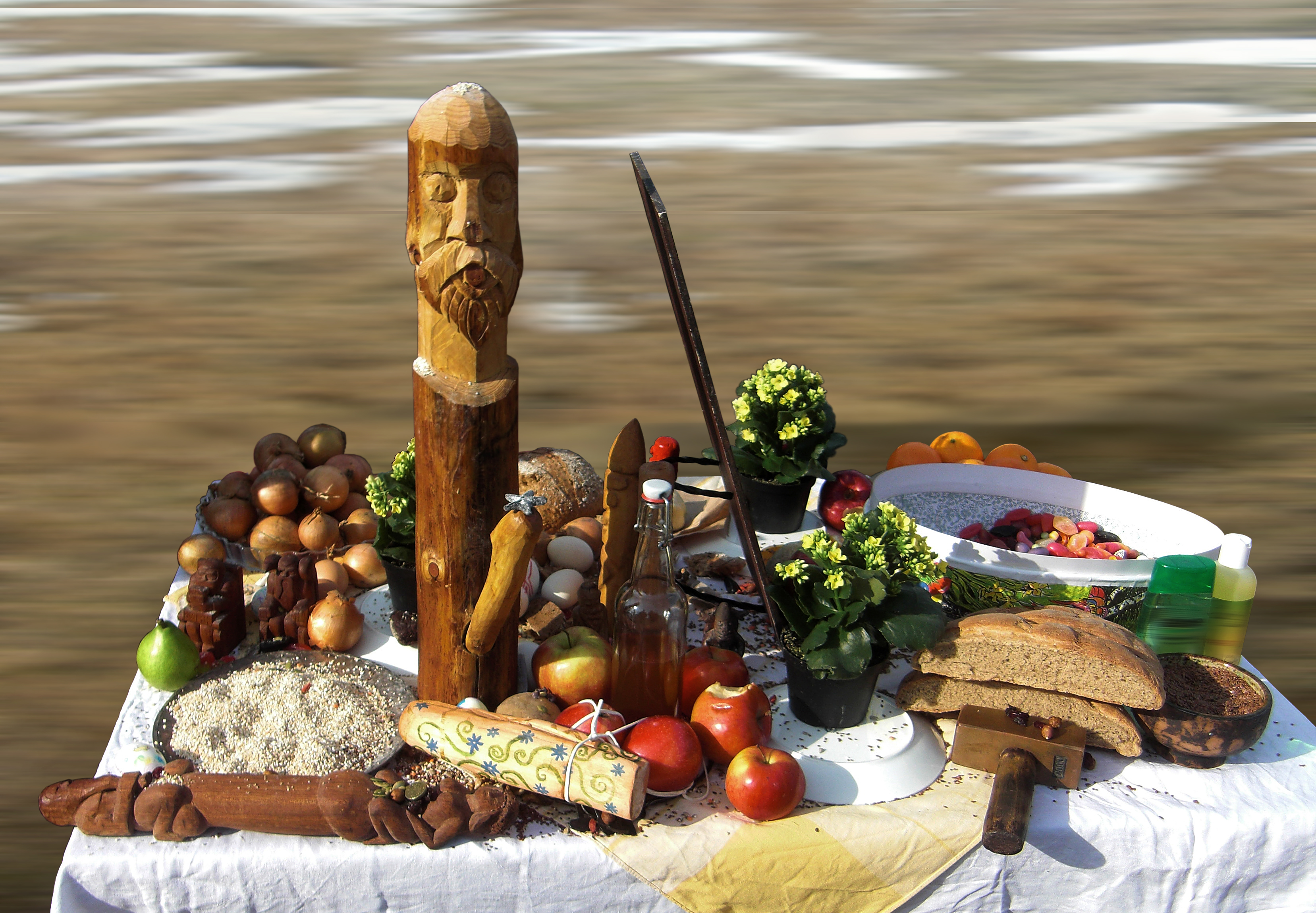 Altar with votive offerings within Forn Sed (Asatru, Norse Paganism). Cult images and votive offerings at the Spring Blót held by Sveriges Asatrosamfund (The Swedish Asatru Society) on 4th April 2010 at Kungshögarna at Gamla Uppsala, Uppland, Sweden. The largest cult image pictures Freyr, the Norse god of fertility. The smaller cult images seen pictures Thor and Odin. Among the votive offerings we can see barley-grains, onions, flowers, bread, eggs, apples, mead, oranges, sweets, and linseeds. To the right is a ceremonial hammer. The altar is just temorary for this ceremony.